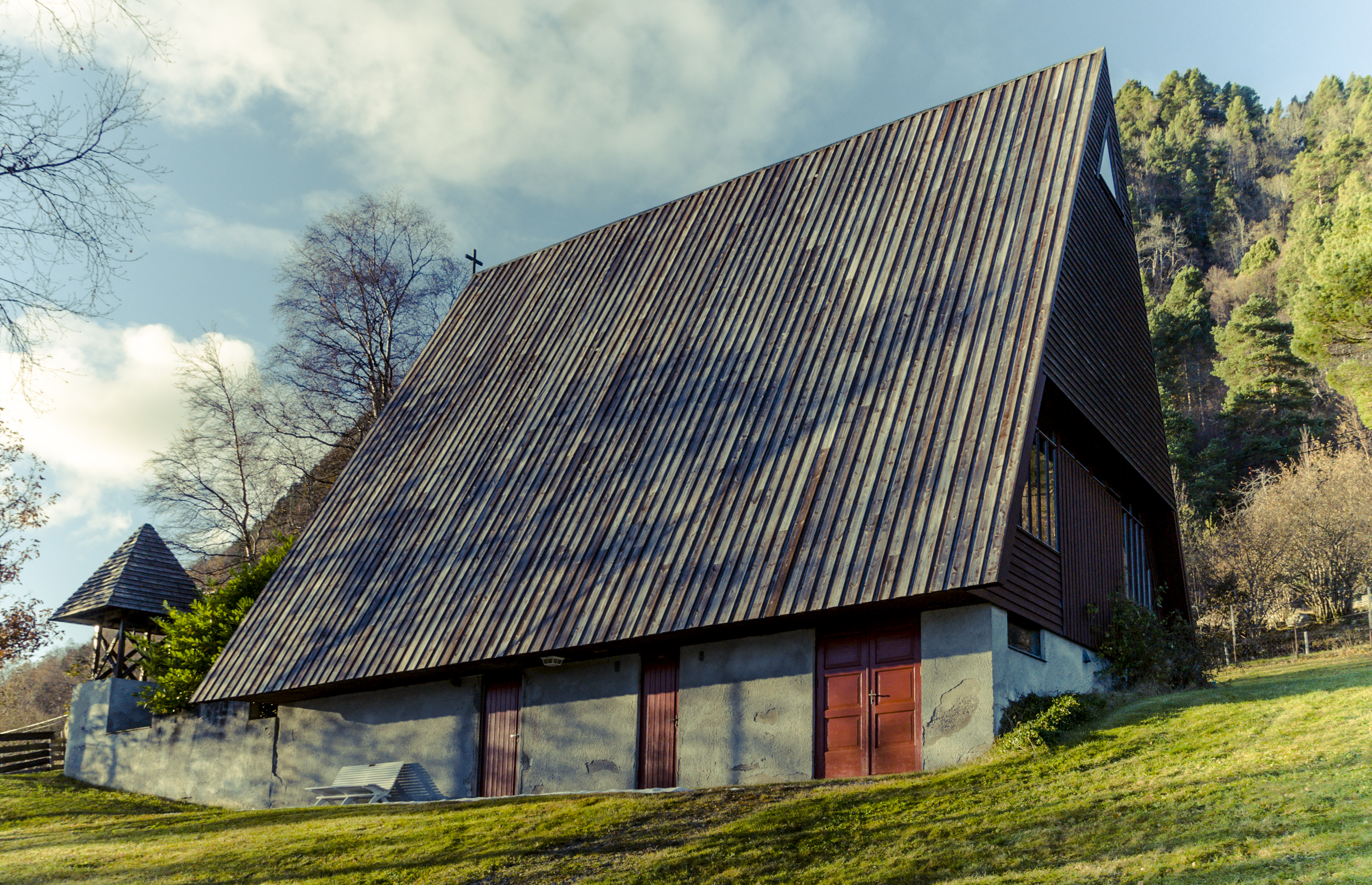 Nord-Heggdal Chapel from 1974 in Midsund, Møre og Romsdal county, Norway. Architect Jostein Heggdal.